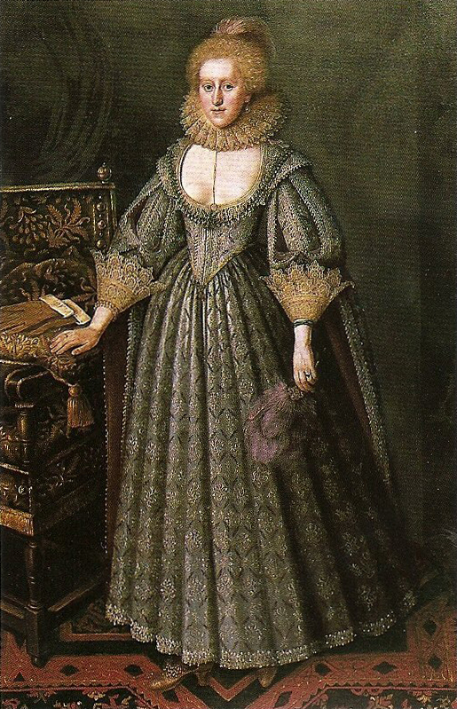 Lady Penelope Wriothsley Spencer (Wriothsley) (1598-1667